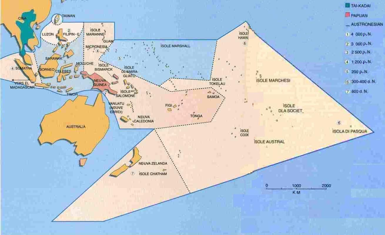 Linguistic maps of Oceania